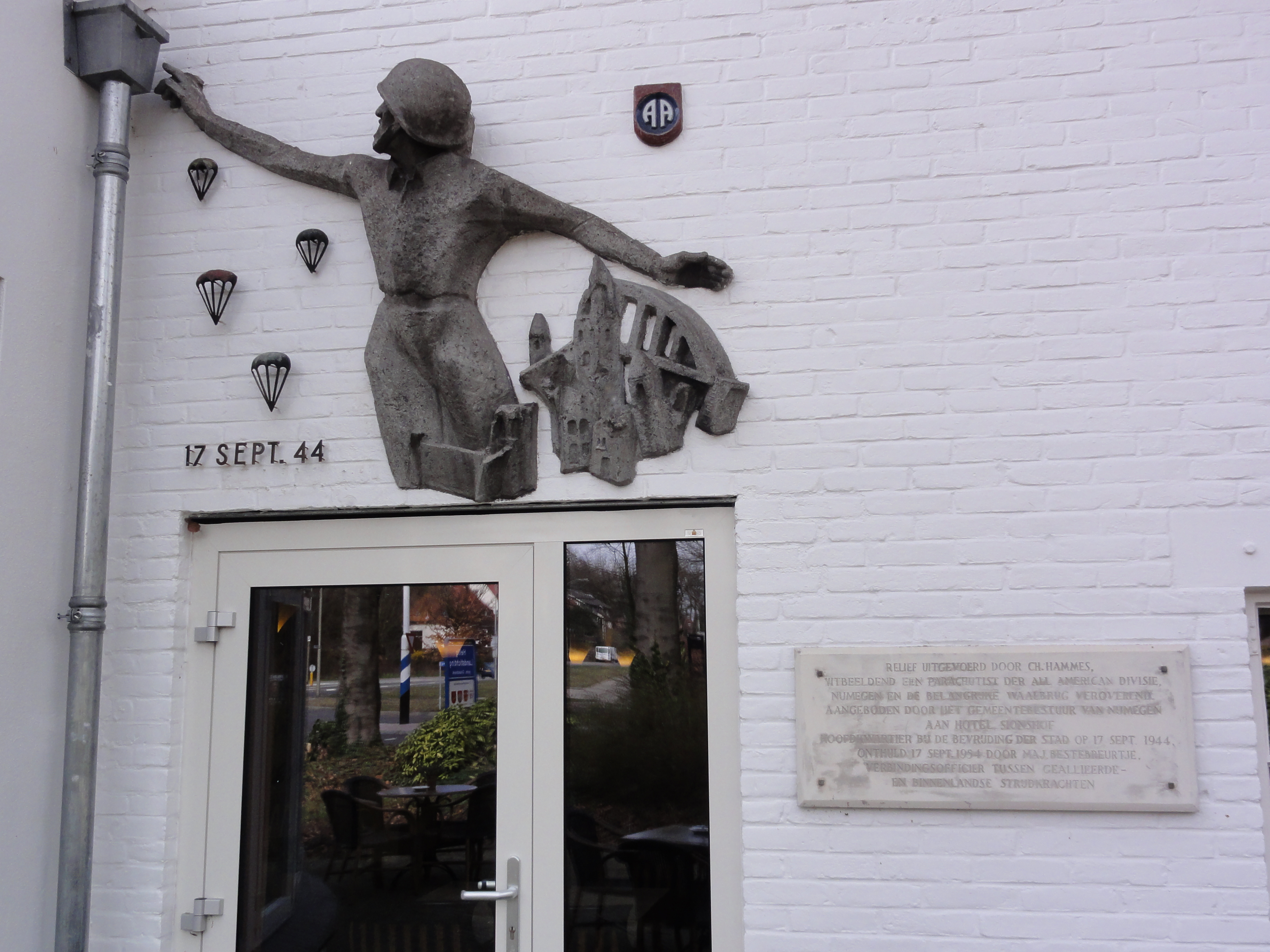 War memorial at Hotel Sionshof, headquarter of military staff at the Liberation of Nijmegen, during Operation Market Garden, September 1944